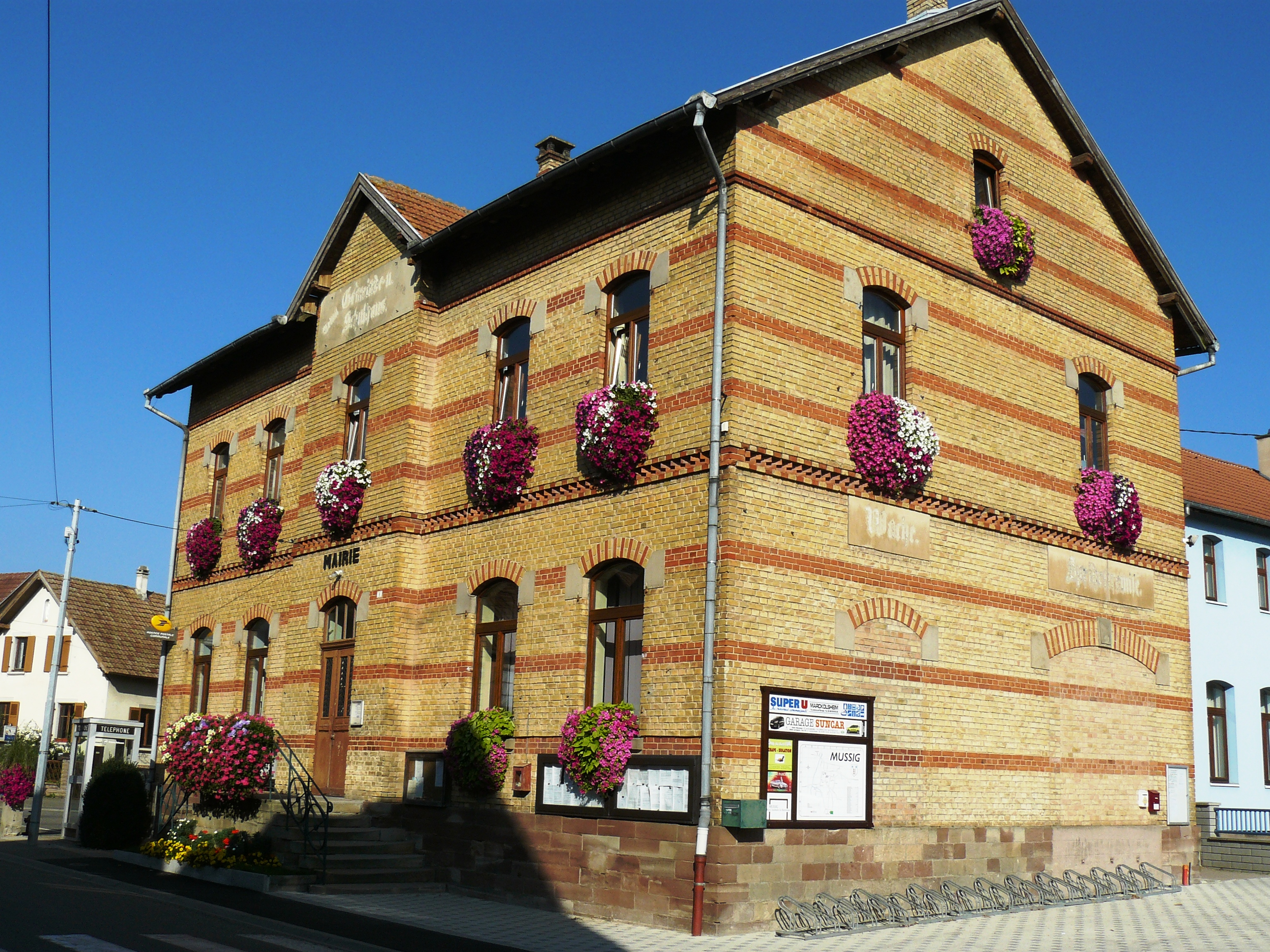 Mussig's city hall